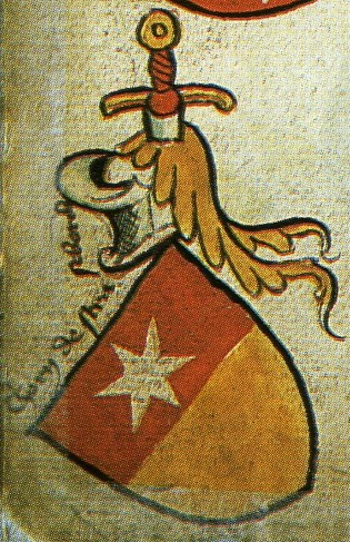 The German Hyghalmen Roll from the late fifteenth century. This roll is currently in the possession of the College of Arms after it was given to them by Thomas Benolt, former Clarenceux King of Arms, its previous owner.